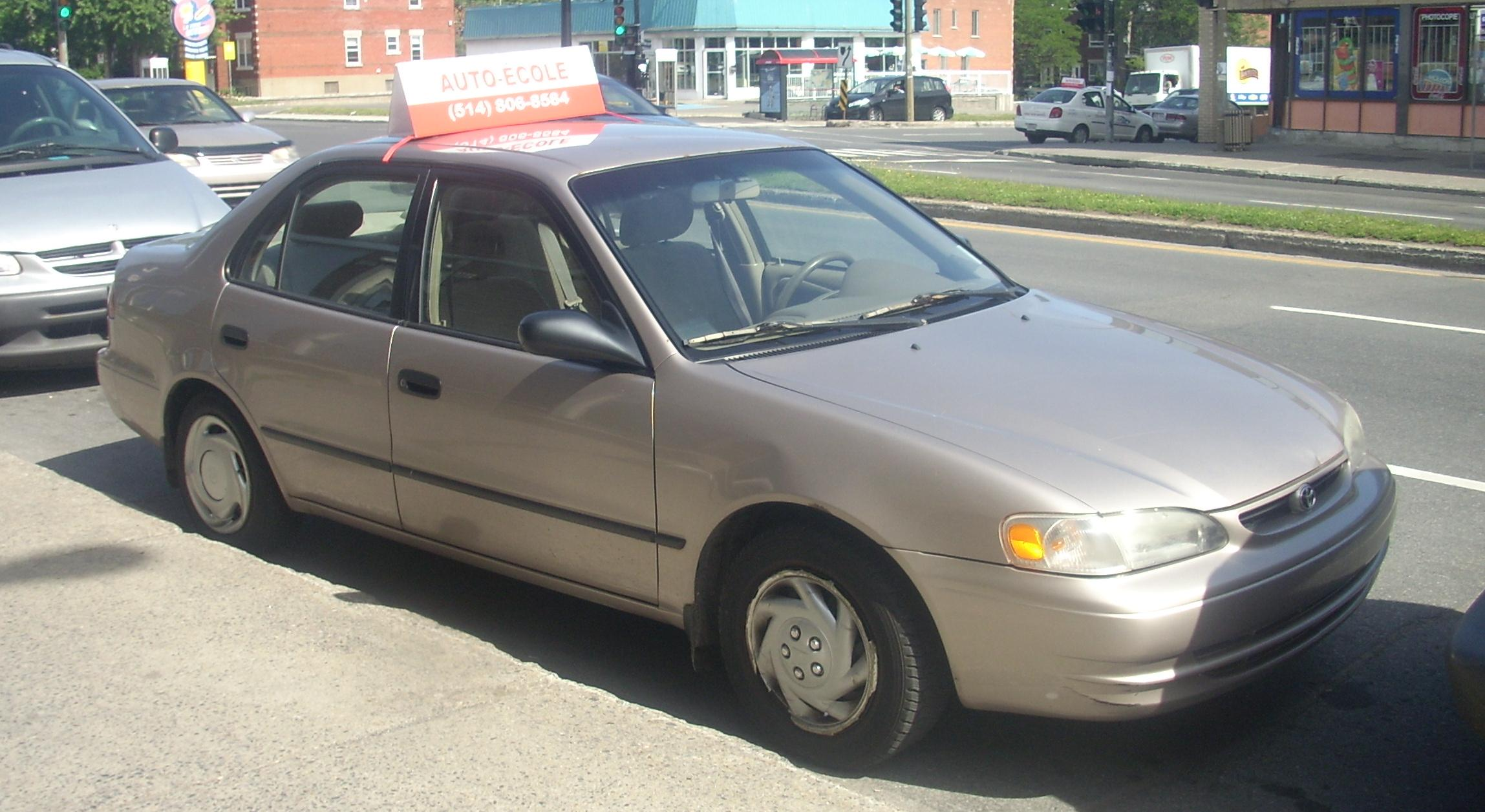 1998-2000 Toyota Corolla photographed in Montreal, Quebec, Canada.